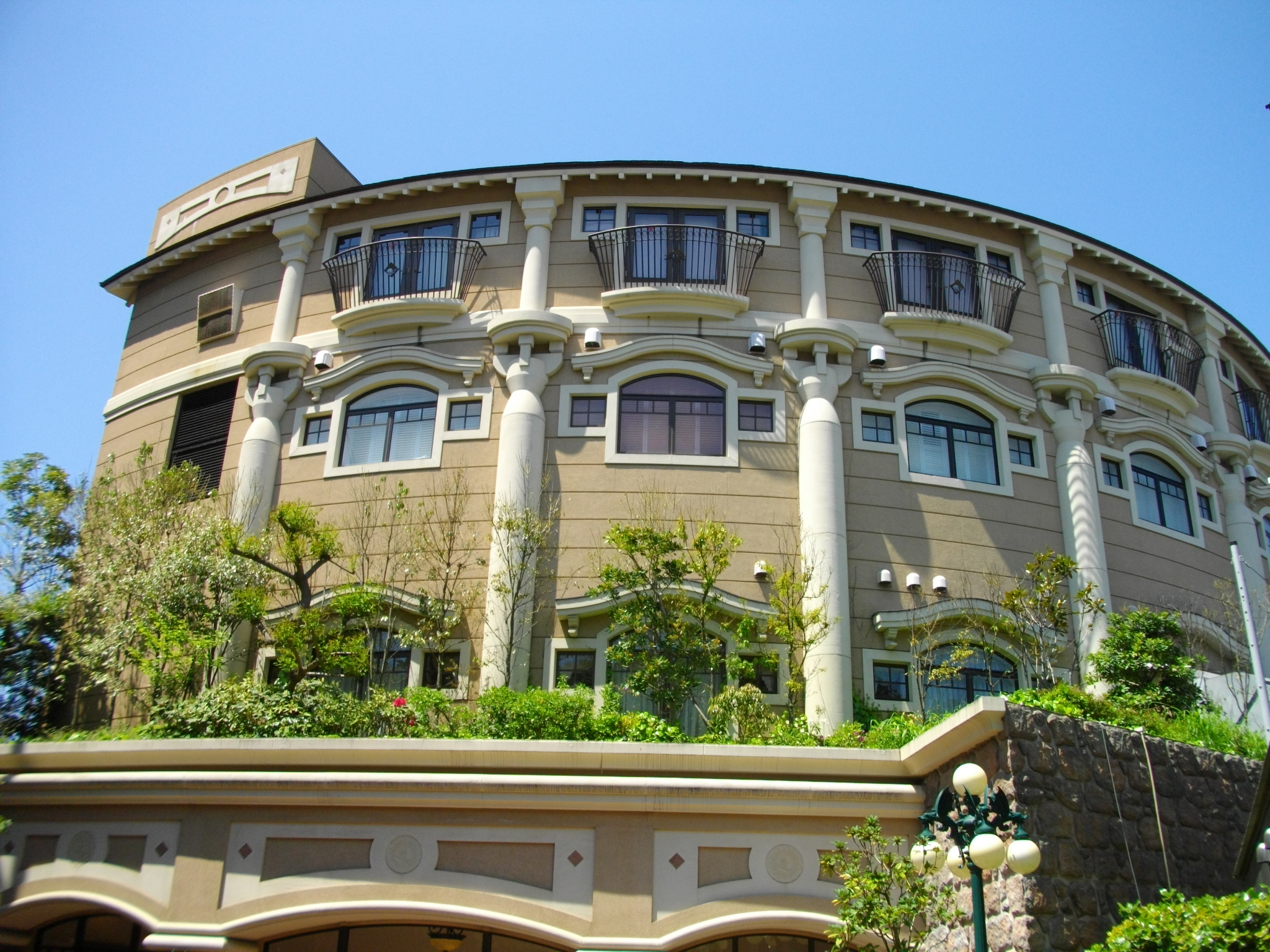 Enoshima Island Spa